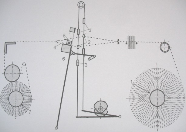 Main parts of the weaving machine